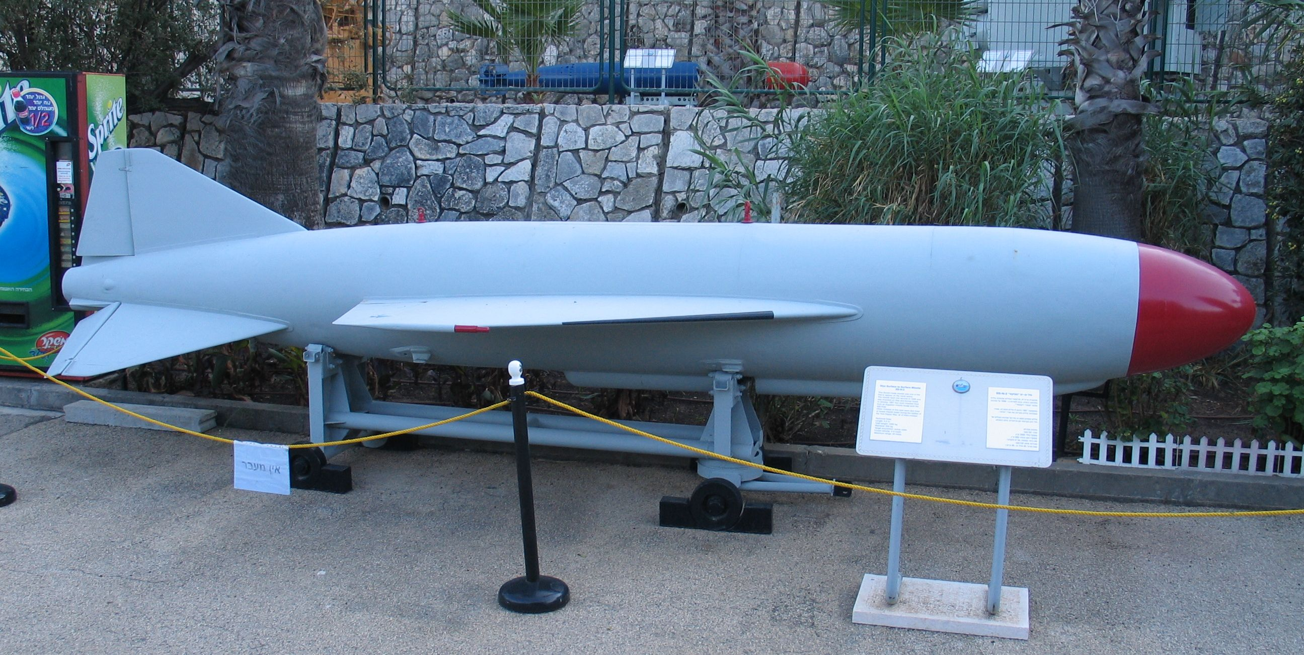 Soviet P-15 Termit (SS-N-2 Styx) anti-ship missile in the Clandestine Immigration and Naval Museum, Haifa, Israel.